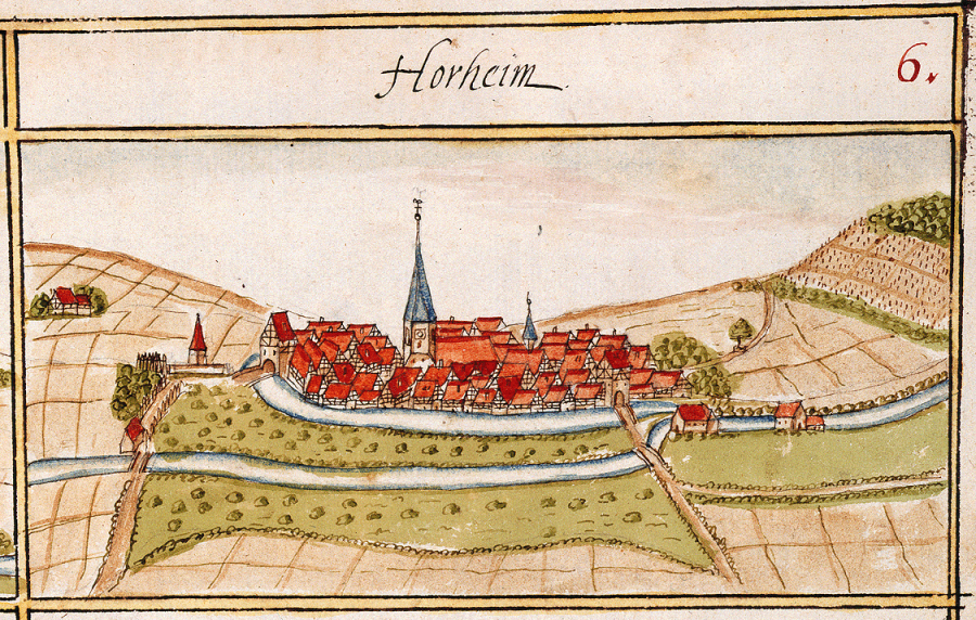 View of Horrheim, Vaihingen an der Enz, from the forest register books created by Andreas Kieser